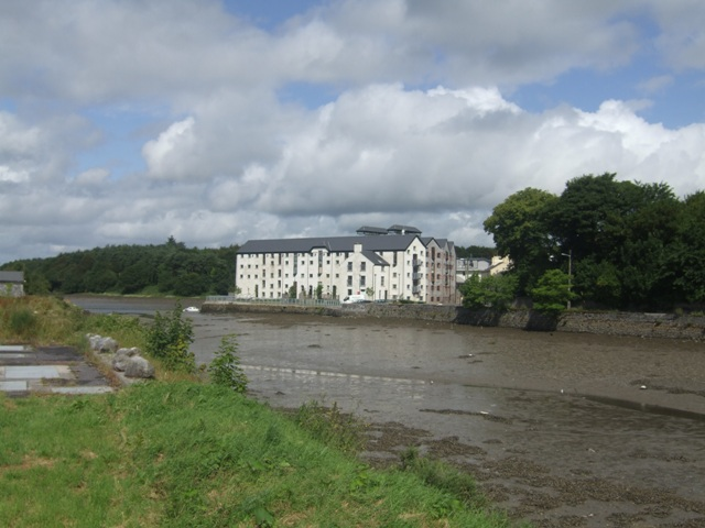 Warehouse conversions Clay extracted nearby was shipped to the Wedgewood potteries in England.